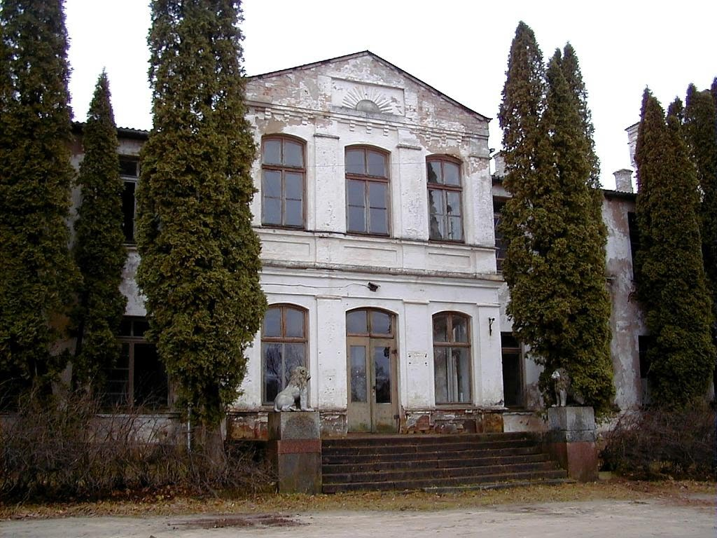 Bornsmünde manor